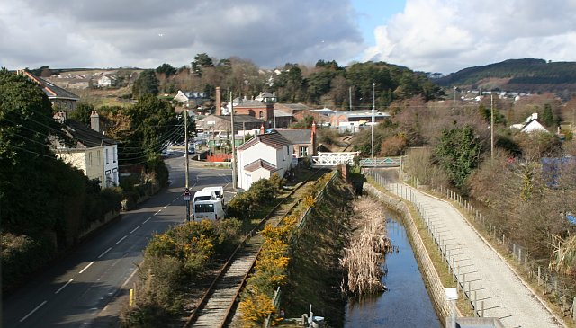 Road, Rail, Canal. Transportation links of various vintages running parallel towards the industrial waterfront at Par. This photograph was taken from a train on the main railway line crossing them all.